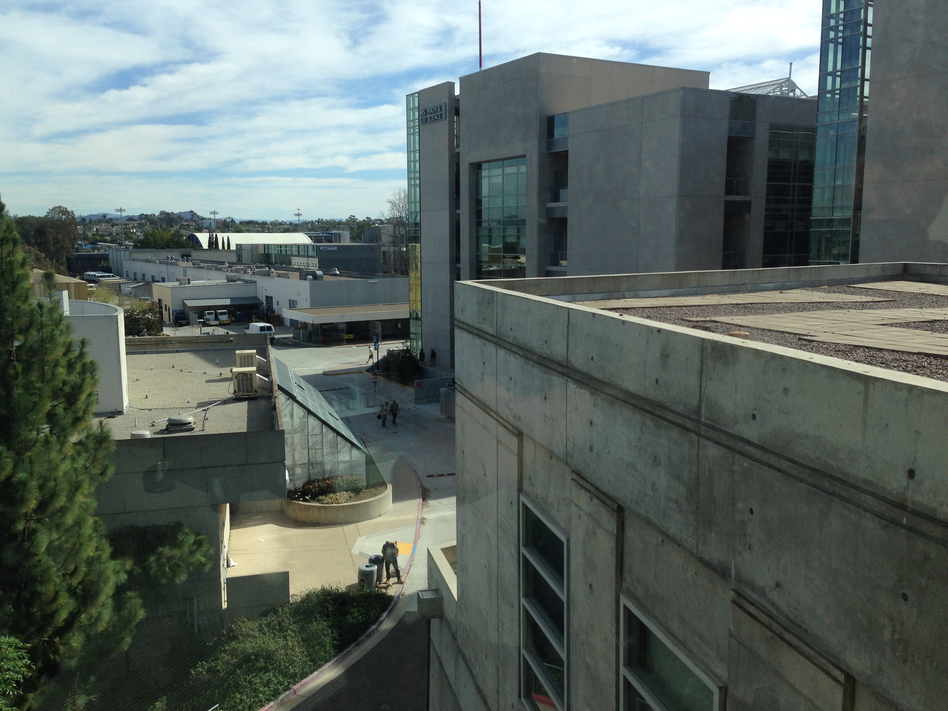 View of the new Math and Science building